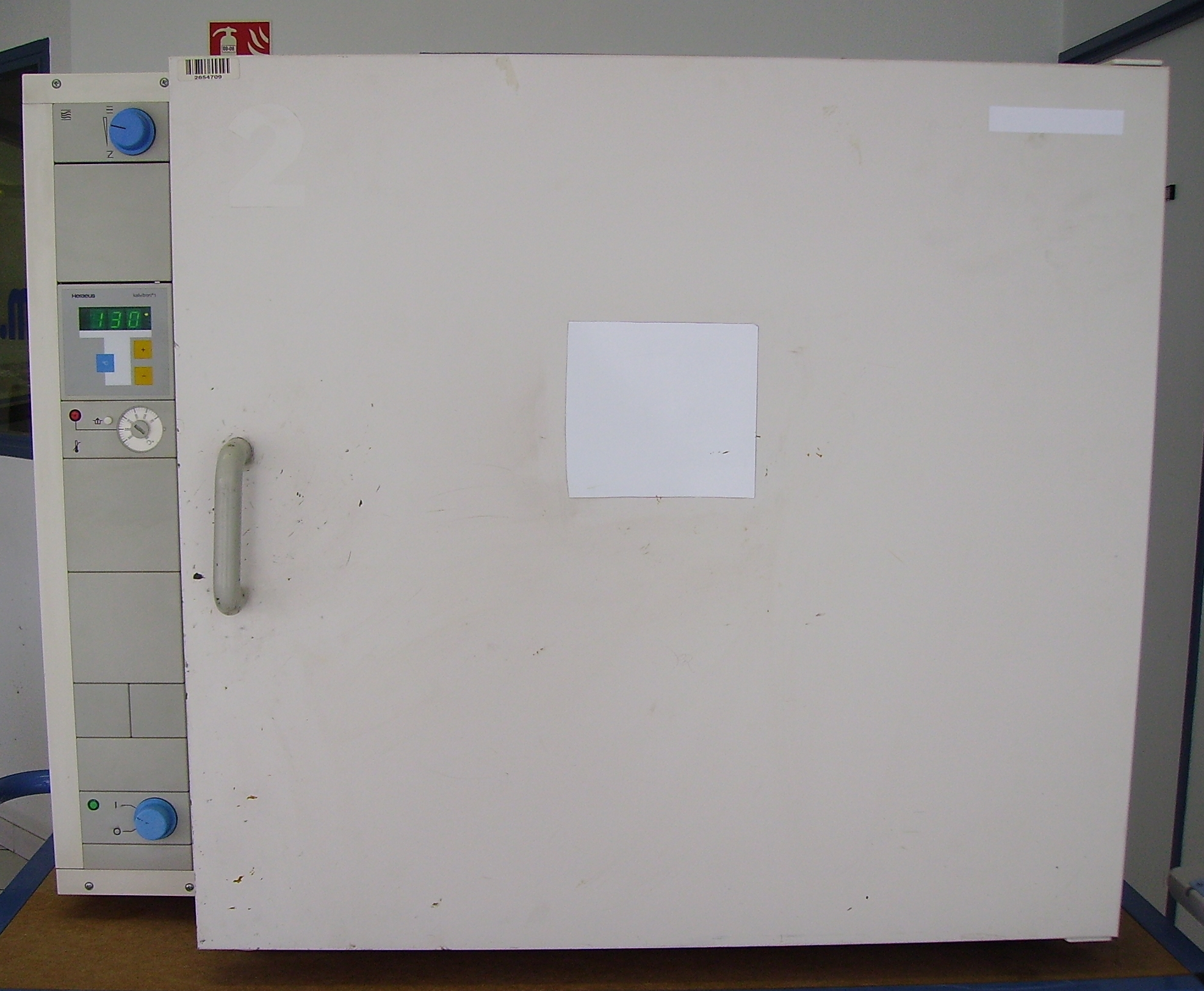 Ventilated heating oven with electronic regulator. Electric heating, P=2.4 kW; regulation from the room temperature + 5 °C; maximum 300 °C; adjustable thermal safety; fan for forced convection; ventilation valve.